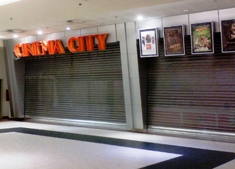 Canceled Cinema City Novodvorska in Prague, The Czech Republic